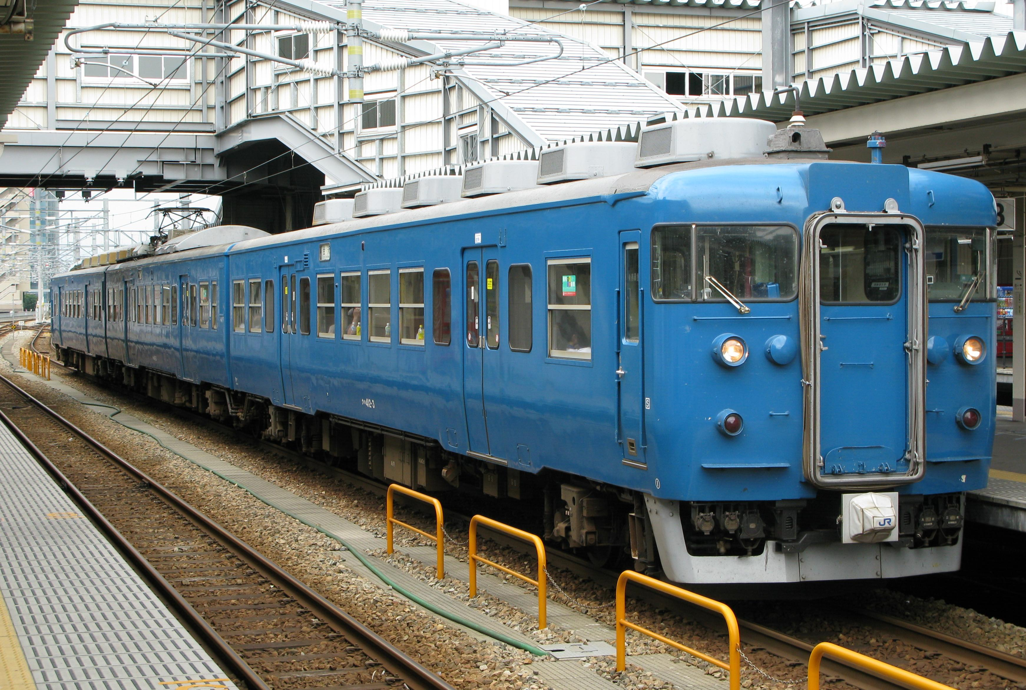 JR West 413 series EMU set B03 at Toyama Station